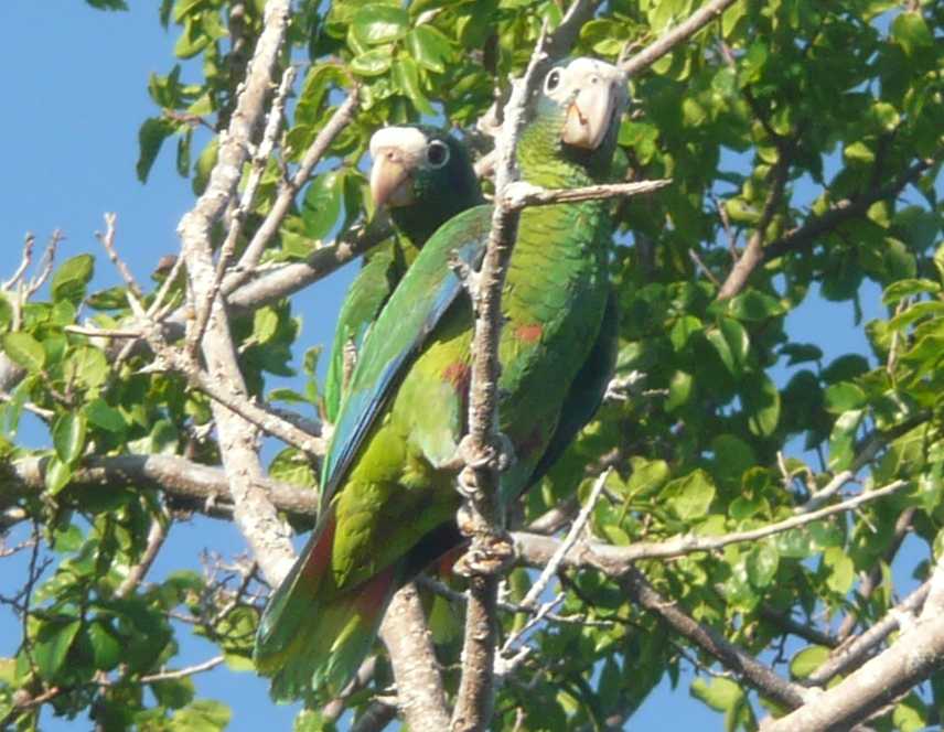 Hispaniolan Amazon in Jaragua National Park, Dominican Republic.